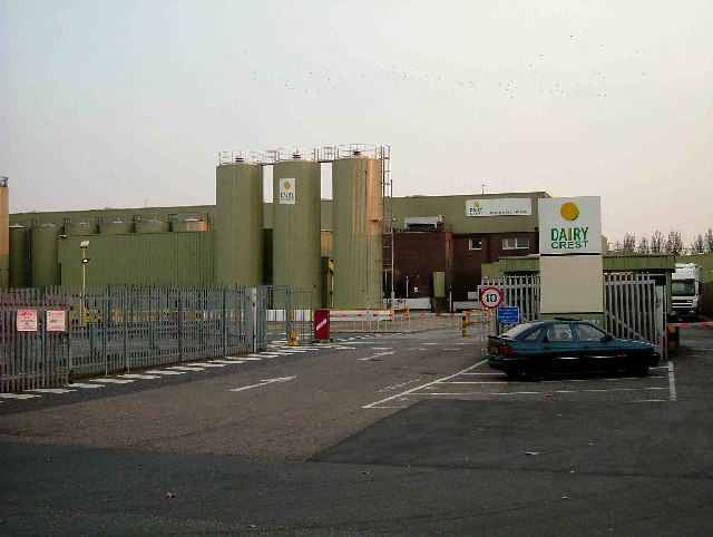 Dairy Crest Chadwell Heath. Not exactly the picture that comes to mind when you say the word “dairy” but that is what this factory is, it produces “liquid milk products”.